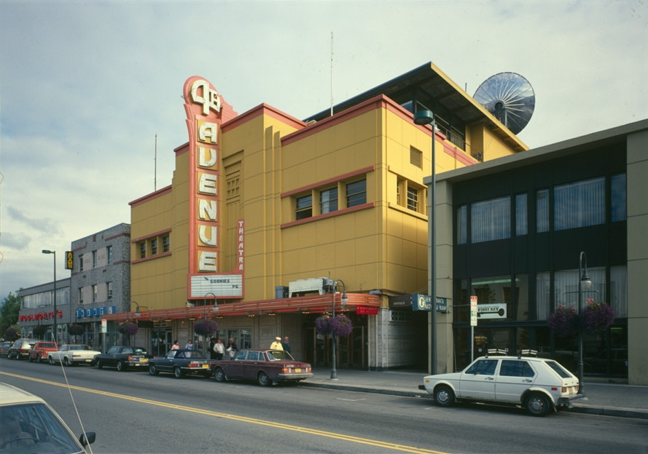 Fourth Avenue Theatre, 630 West Fourth Avenue, Anchorage, Anchorage, AK